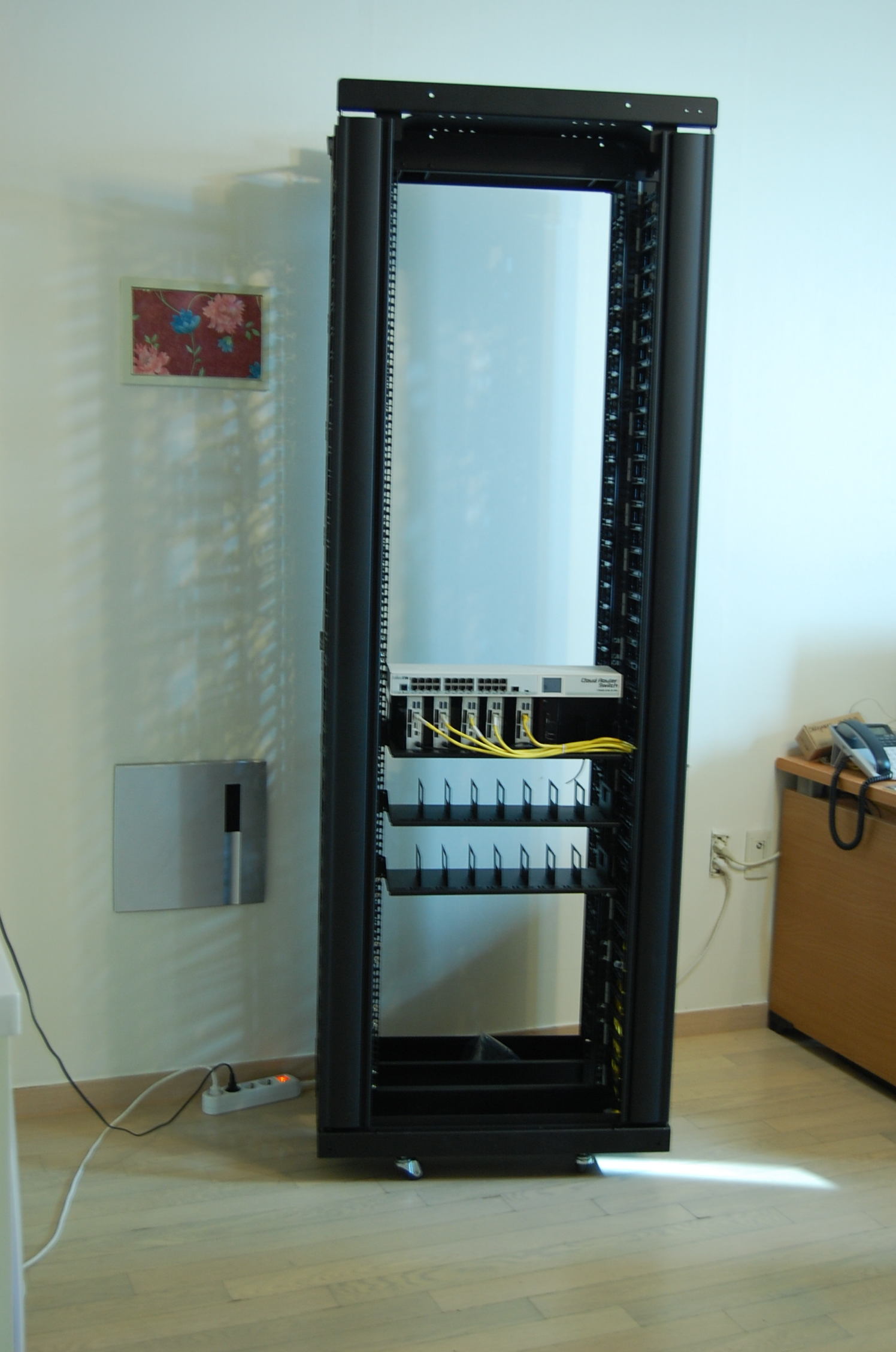 NUCserver custom solution 2